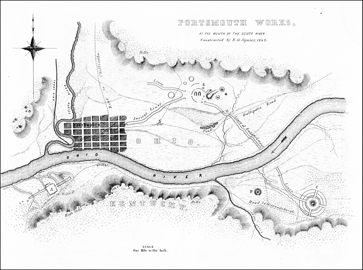 A Squier and Davis map of the Portsmouth Earthworks, a Hopewell mound complex located in Portsmouth, Ohio and across the Ohio River in Greenup County, Kentucky.